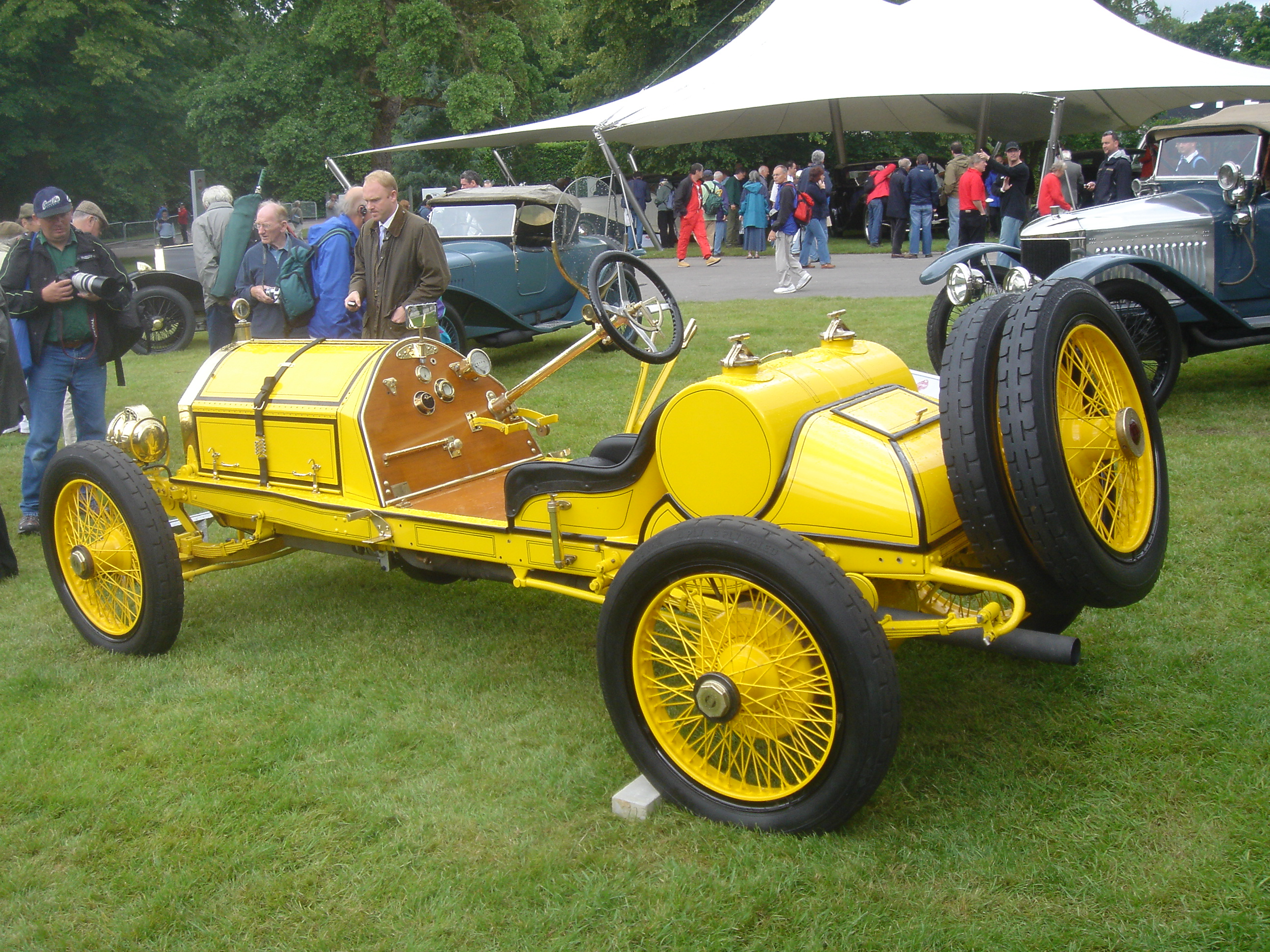 Goodwood Festival of Speed 2007 - Mercer Raceabout (1912)